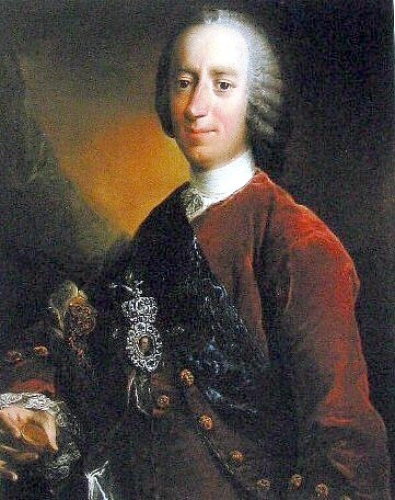 Adam Gottlob Moltke (1710-1792)